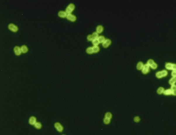 Streptococcus pneumoniae in spinal fluid. FA stain (digitally colorized). Streptococci